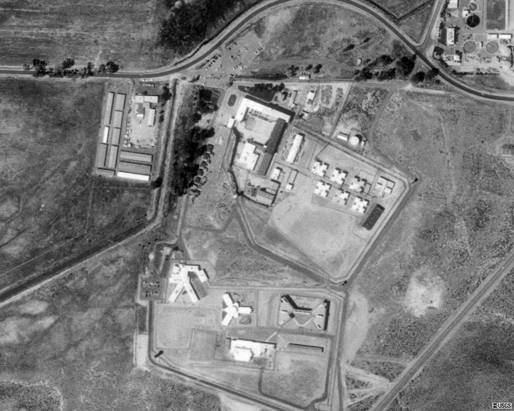 Aerial photo of Nevada State Prison at Carson City in 1999, before U.S. Route 395 was constructed at the west side of the prison.